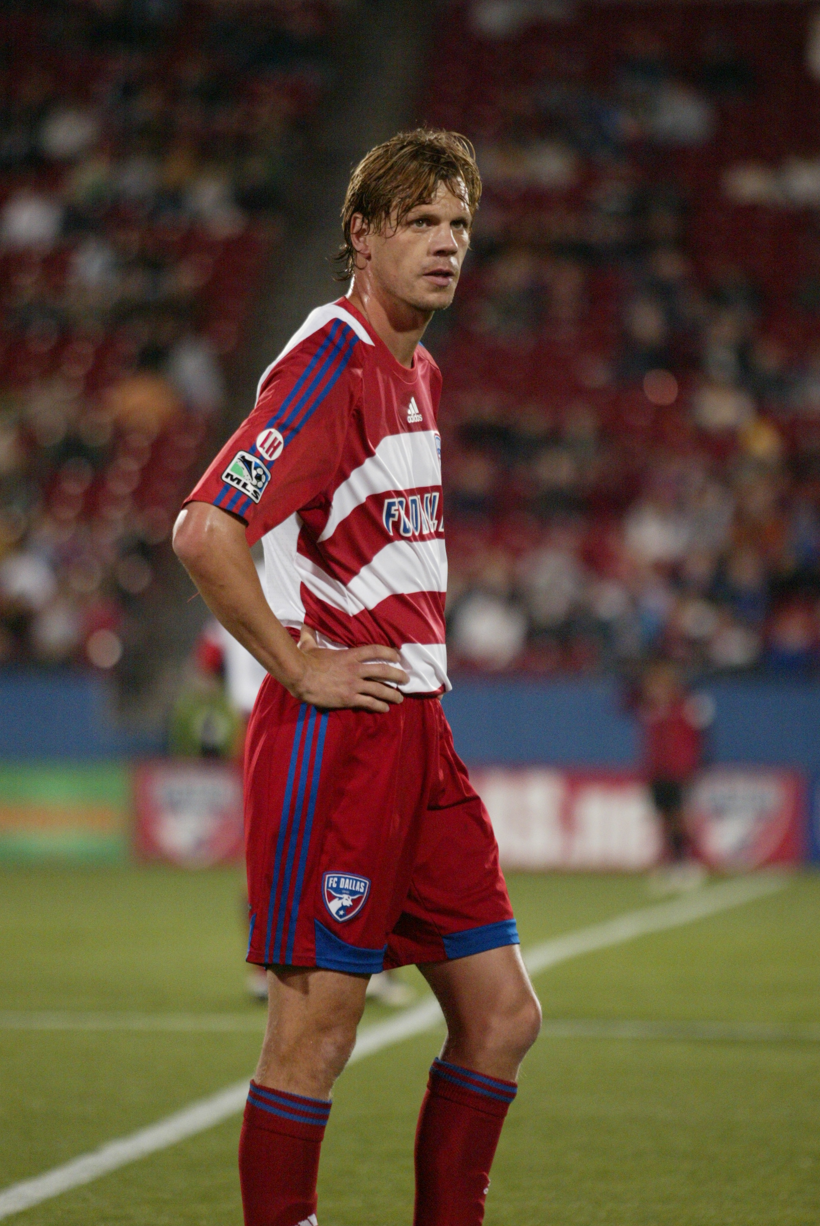 Photo of Dave Van den Bergh